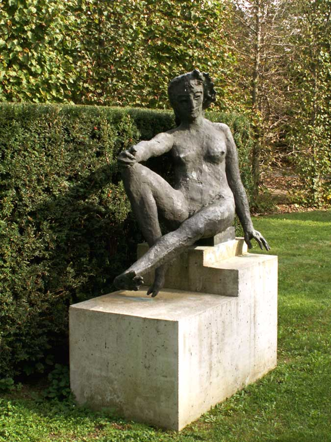 Österreichischer Skulpturenpark, Herbert Boeckl, Atlantis - detail -, 1940/44